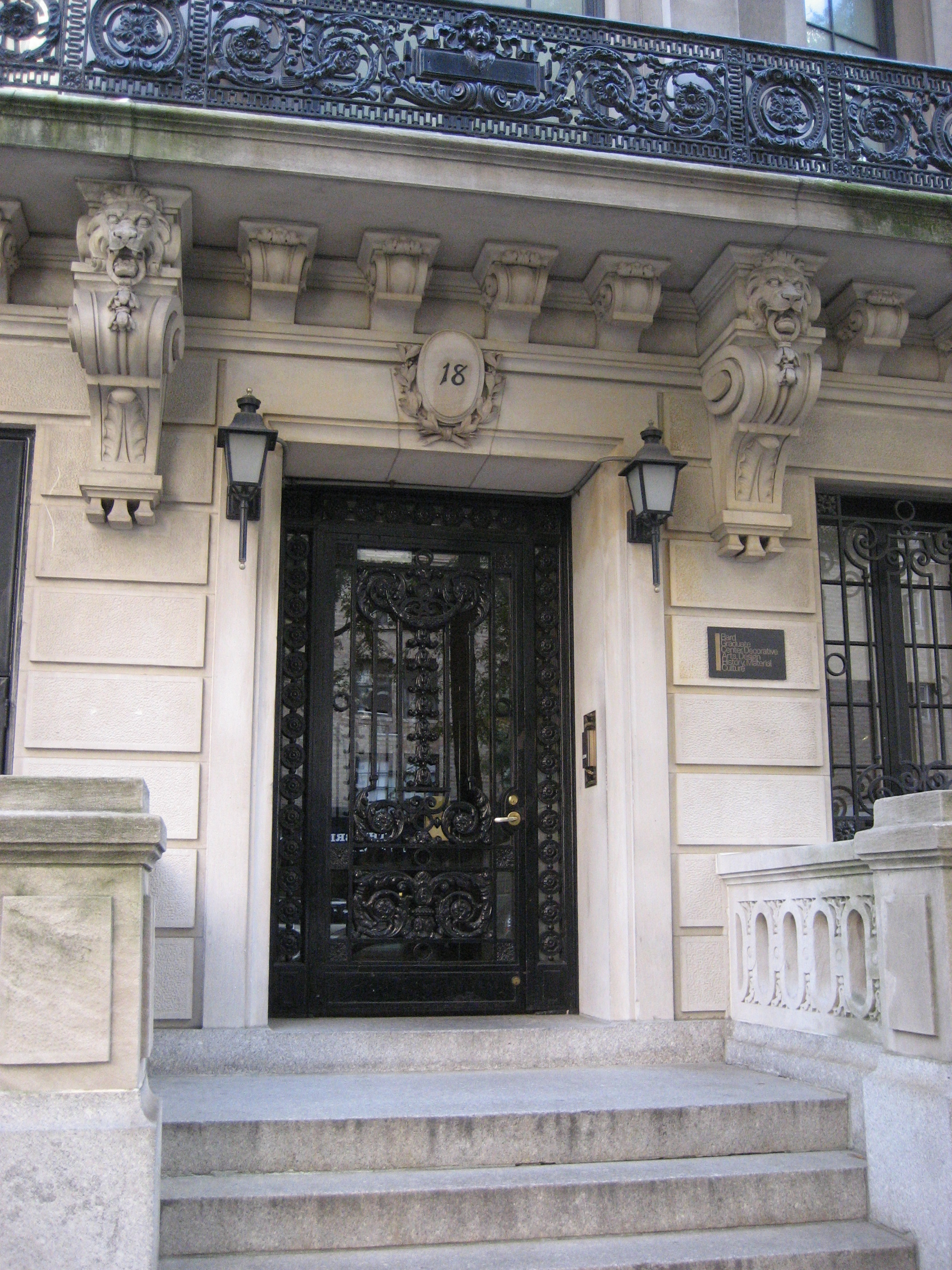 Bard Graduate Center in New York City